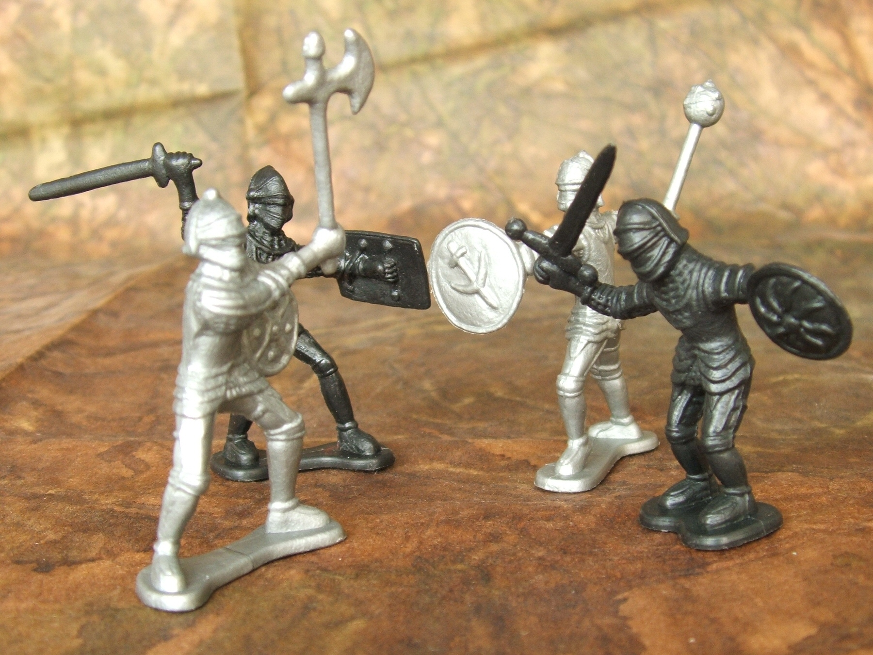 Medieval toy soldiers